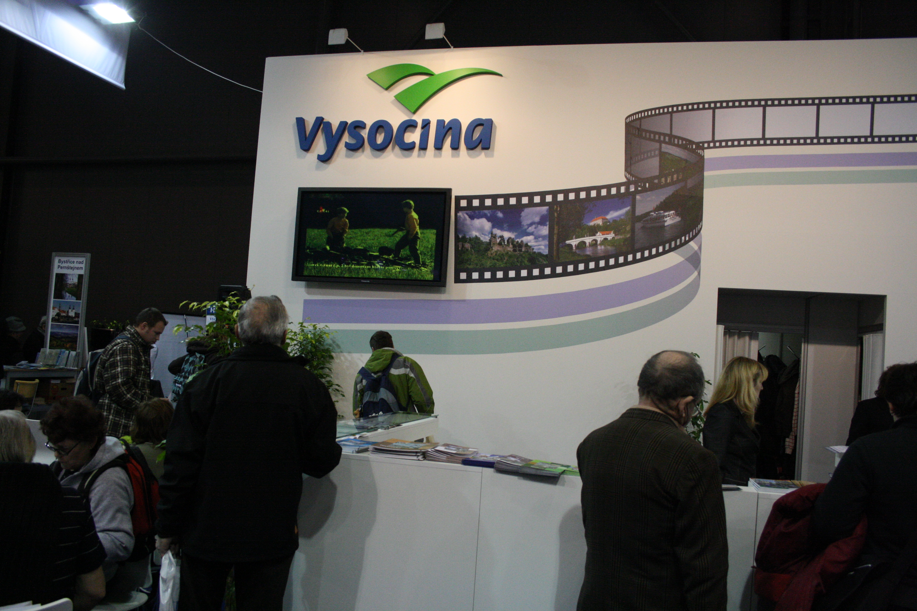 Presentation of various touristic destinations of Czech Republic.